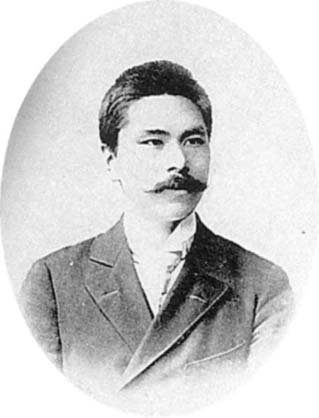 K. Doi, Professor of Dermatology and Syphilis.